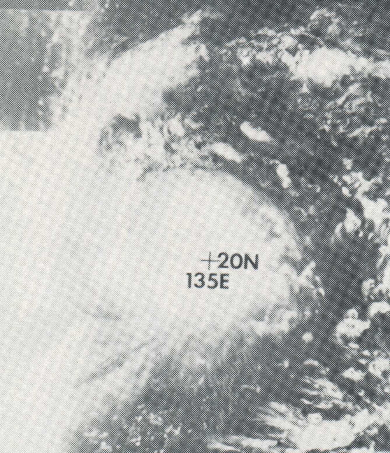 This DMSP moonlight weather satellite image of Typhoon Fran was taken on September 7, 1976